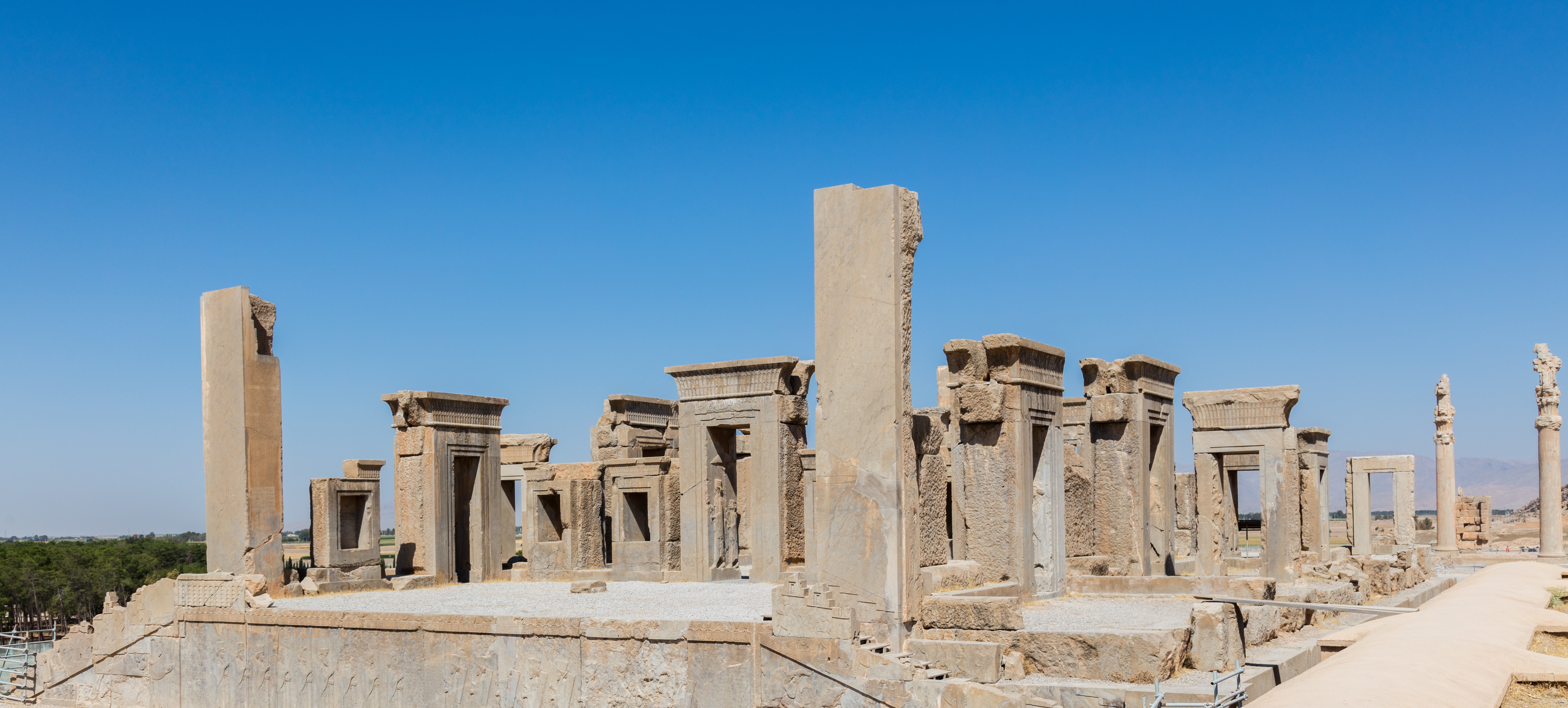 Persepolis, Iran